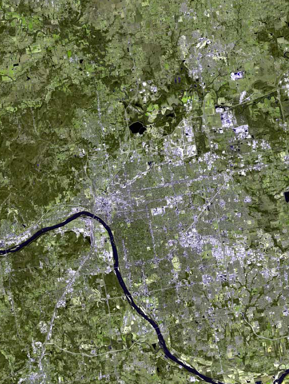 The raw satellite imagery shown in these images was obtain from NASA and/or the US Geological Survey. Post-processing and production by